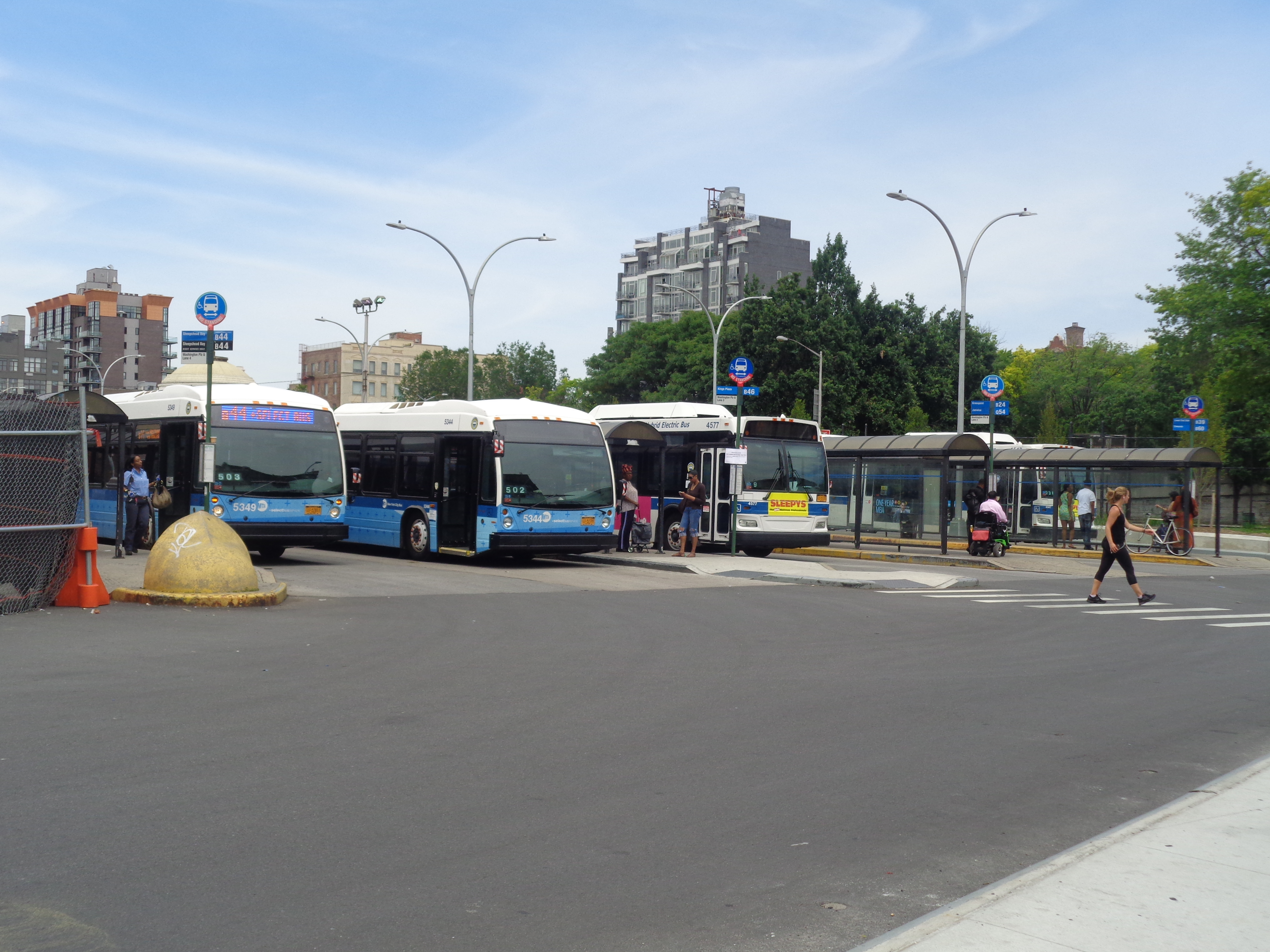 The Williamsburg Bridge Plaza Bus Terminal near the Marcy Avenue station in Williamsburg, Brooklyn. From left-to-right, two Sheepshead Bay-bound B44 Select Bus Service buses, and a Kings Plaza-bound B46 local. The B46 limited (now the B46 SBS) ceased operating to the terminal today.